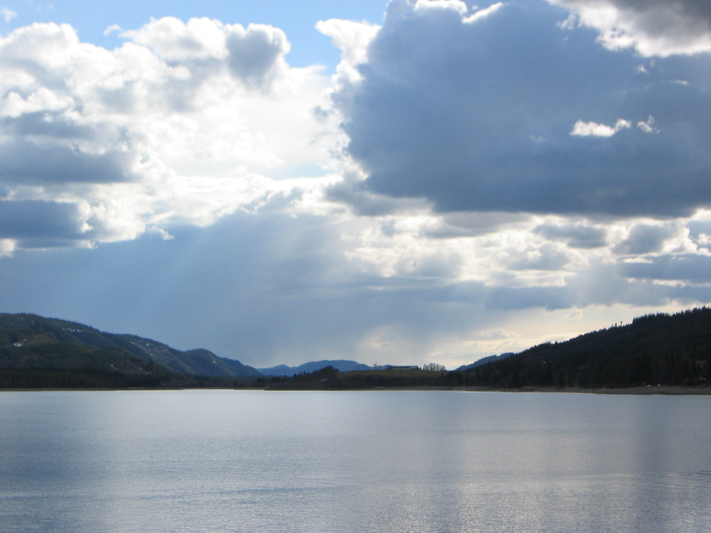 The lake of Selbusjøen in Klæbu, Norway. Picture taken facing westwards from Bjørklia in the spring of 2005.